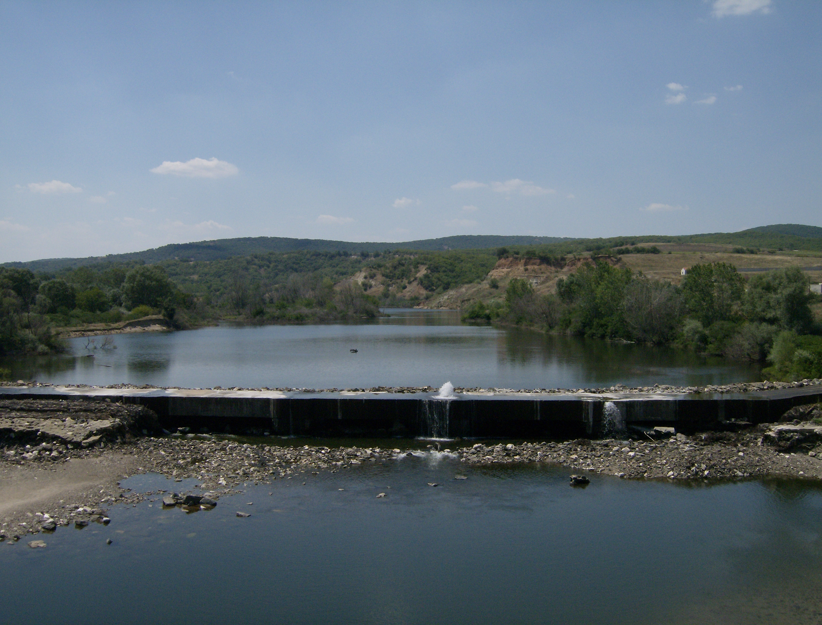 Arda between Komara and Kyprinos